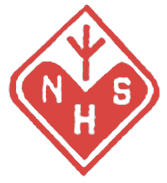 Cropped and colorized version of plate from Nasjonal Samling årbok 1944 ("Yearbok of the Nasjonal Samling 1944") showing the emblem of NHS, Nasjonal Samling Hjelpeorganisasjon, a humanitarian organization of Norwegian Nazi party Nasjonal Samling during World War II.